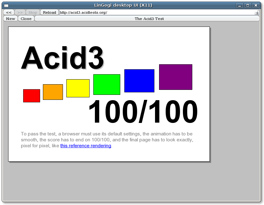 Opera 9 (beta version) scores 100/100 on the Acid3 test